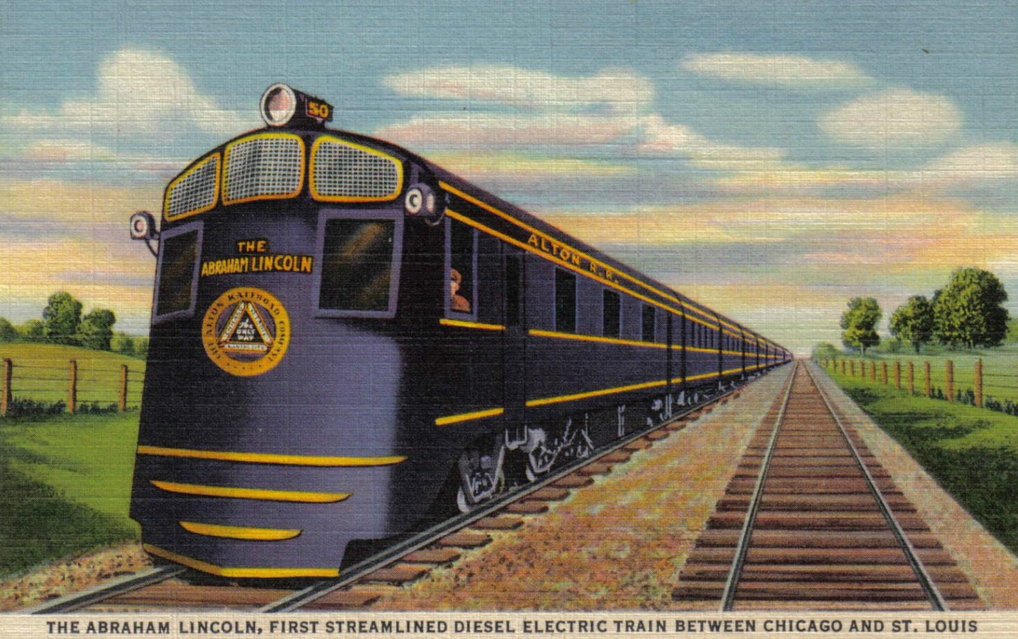 Postcard view of the Alton Railroad train Abraham Lincoln.